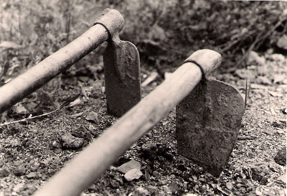 tools for farmers and planters